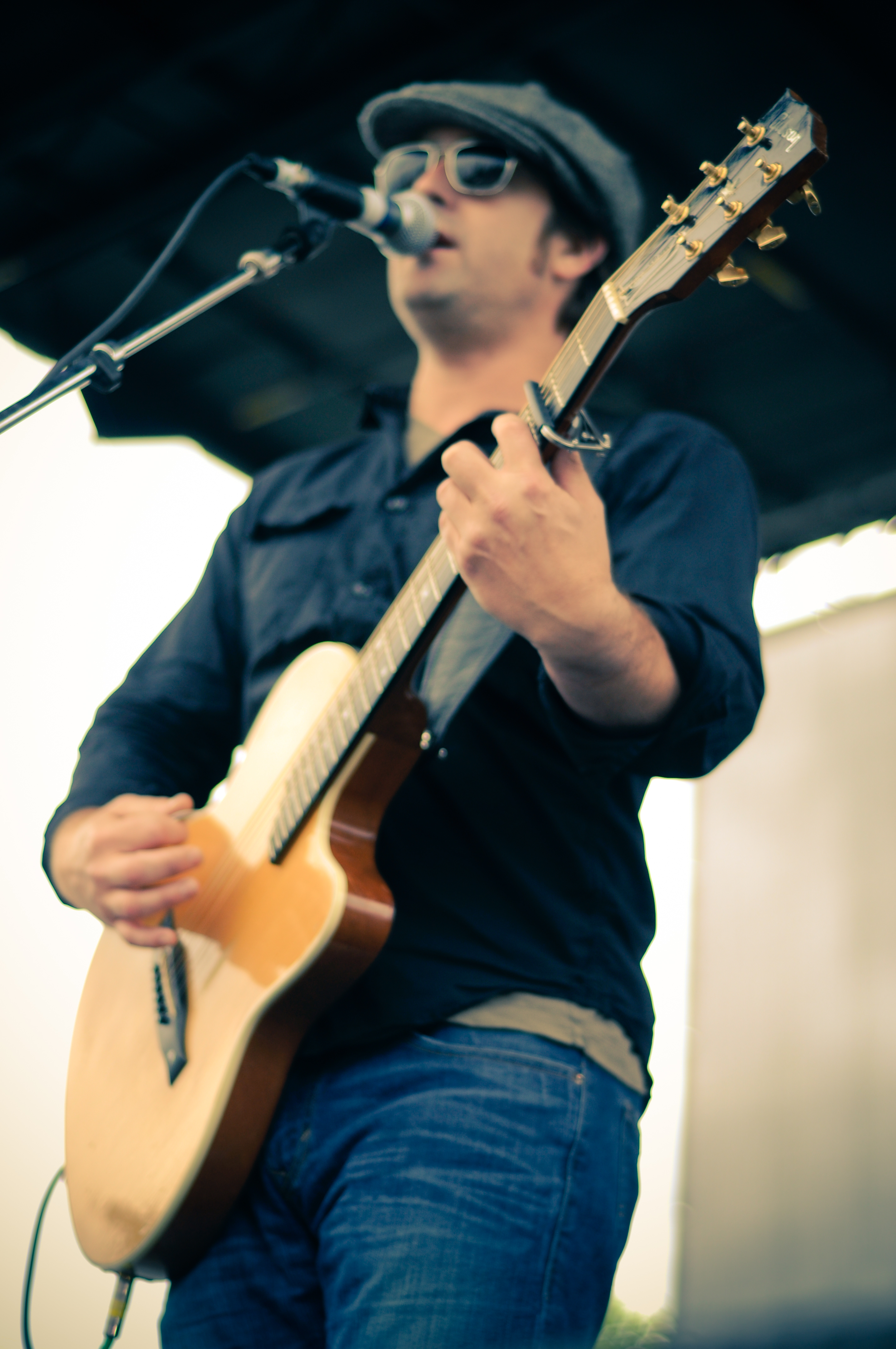 This is a photo taken at the Rock N' Roll Marathon In Seattle of Emerson Hart the lead singer of Tonic. Taken By: Patrick Murphy